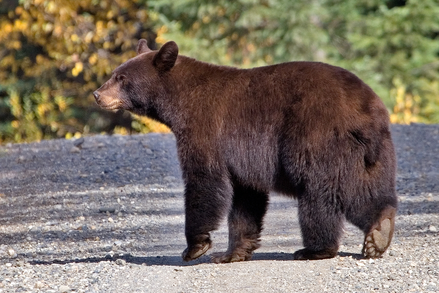 A black bear (female) in Horsefly Peninsula, Quesnel Lake, British Columbia